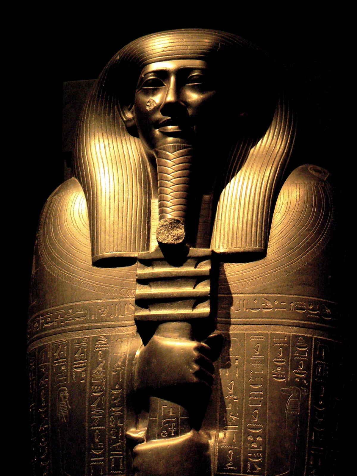 The sarcophaugus lid of Ibi, the chief steward of the Divine Adoratrice of Amun, Nitocris. (reign of Psamtik I) From the Egyptian Museum of Turin.